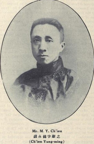 Qian Yongming (Ch'ien Yung-ming; Y. M. Chien), Xinzhi (1885 - 1958)